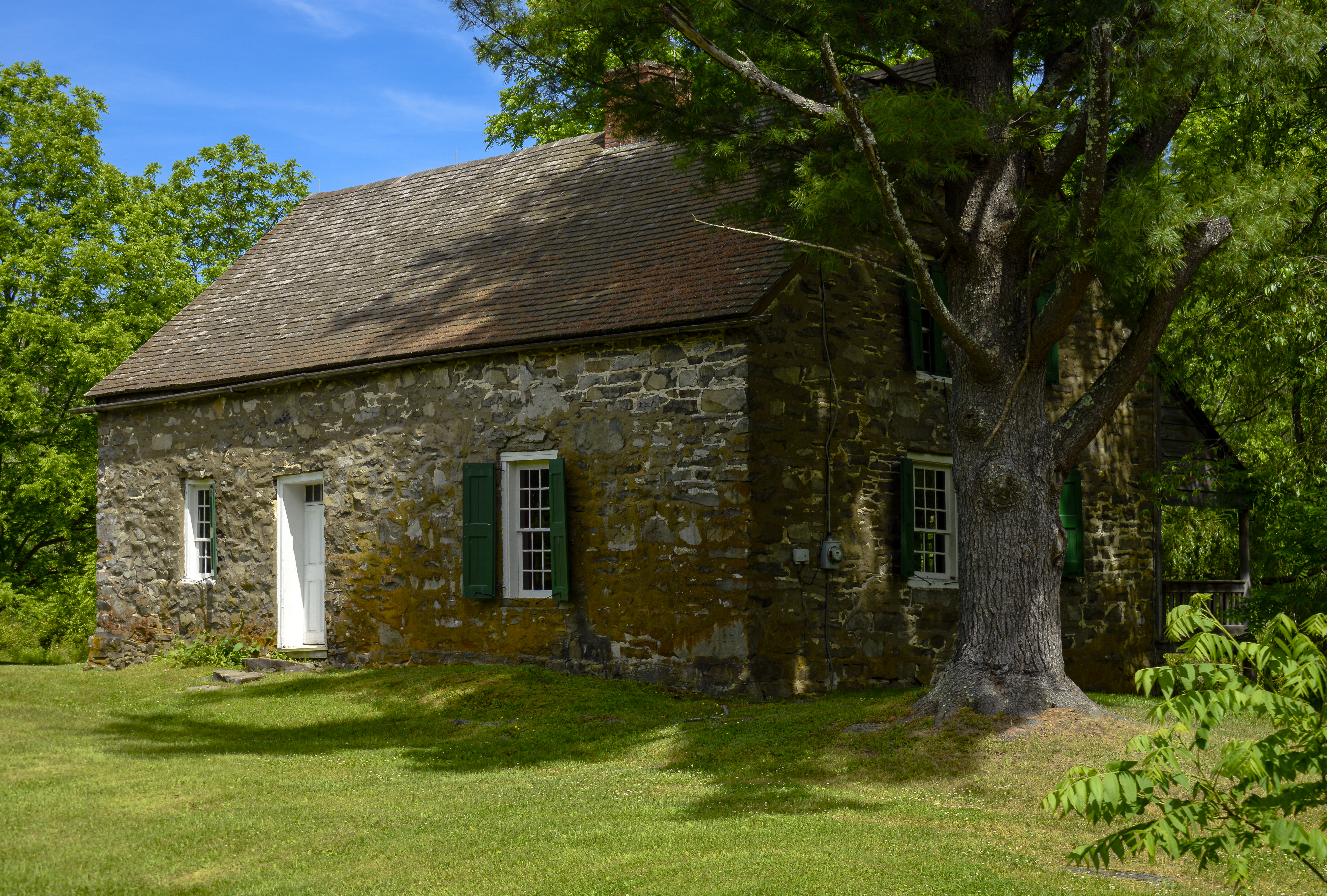 Front elevation of the Evert Terwilliger House at Locust Lawn Estate, Gardiner, NY, USA